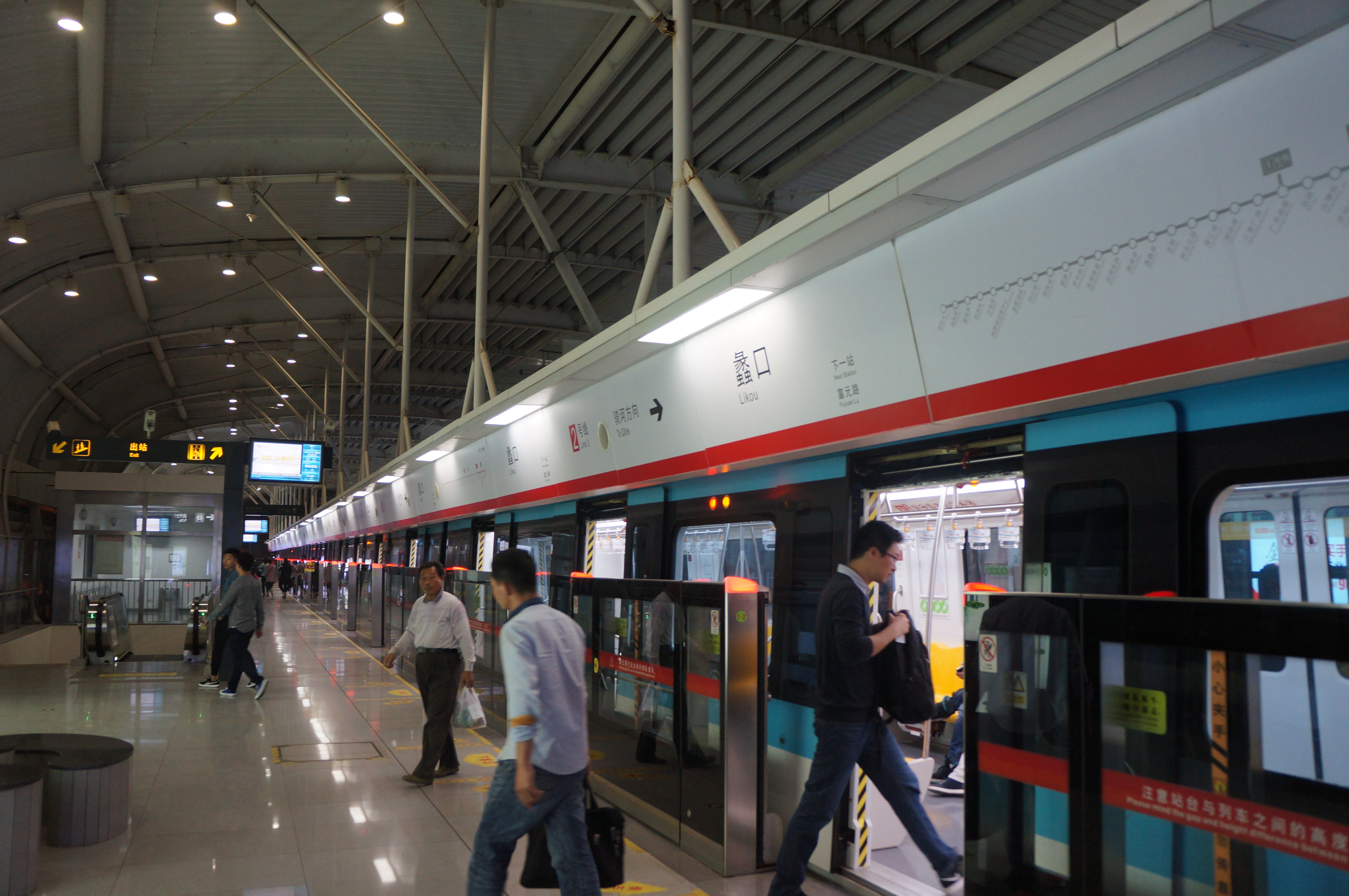 201610 Likou Station